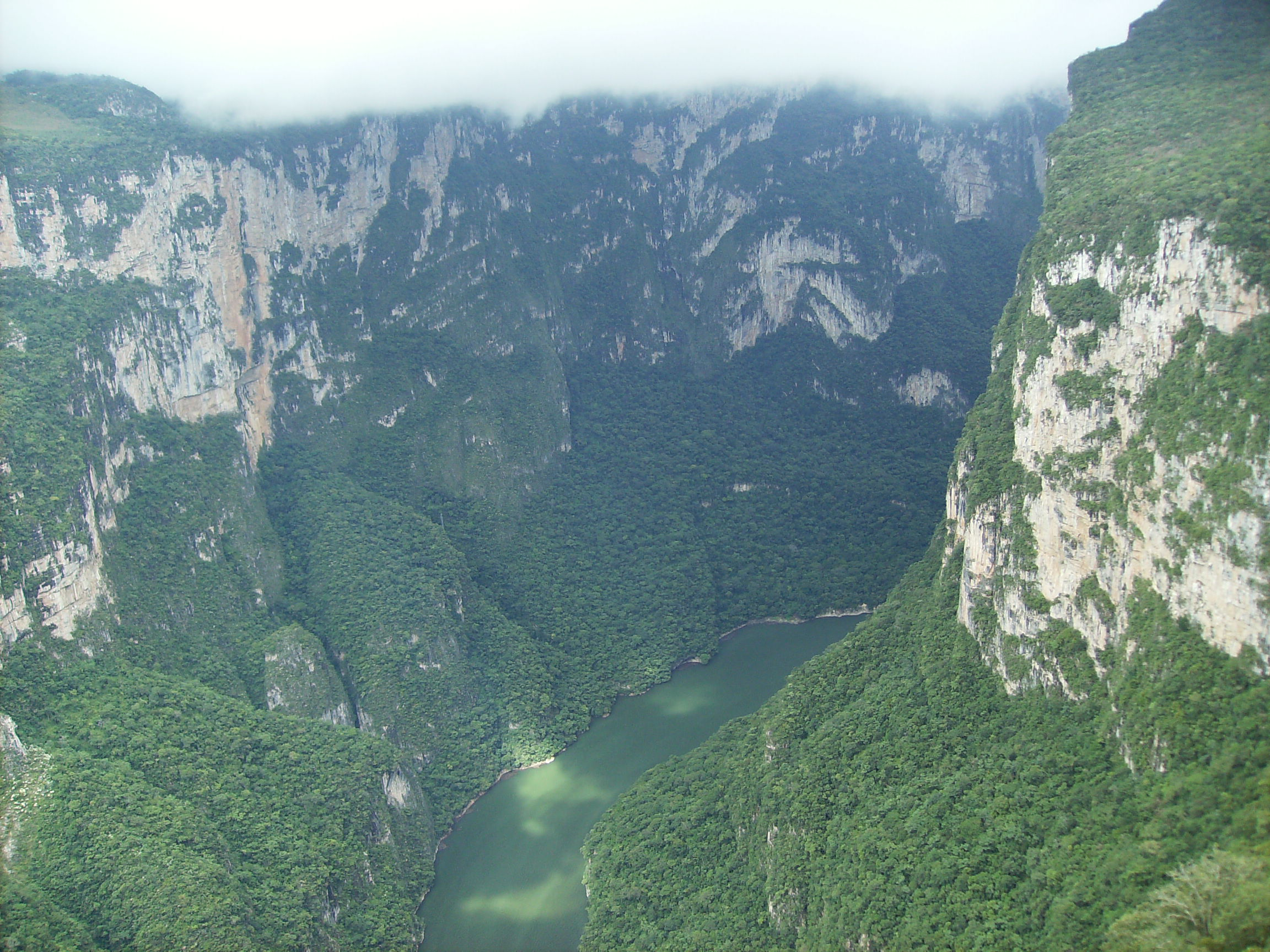 Cloudy view of Sumidero Canyon, outside of Tuxtla Gutierrez in the Chiapas province.